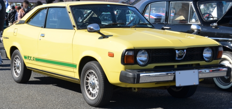 Subaru Leone Coupe 1600 RX/A